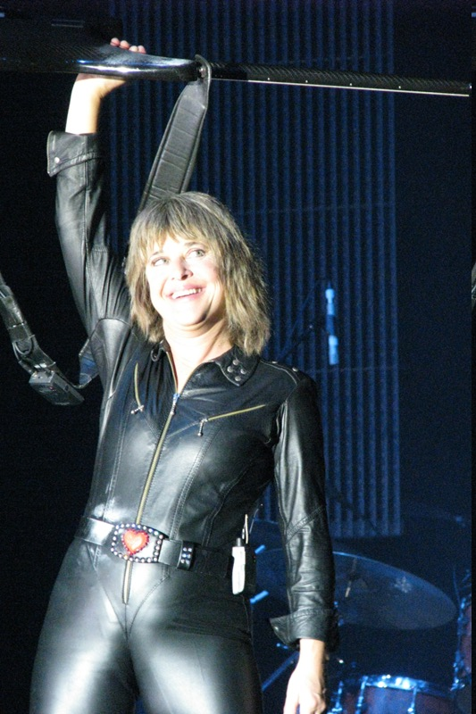 Singer Suzi Quatro at AIS Arena in Canberra, Australia on 26 September 2007.